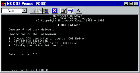 Microsoft Windows 95 Version 4.00.1111 fdisk command